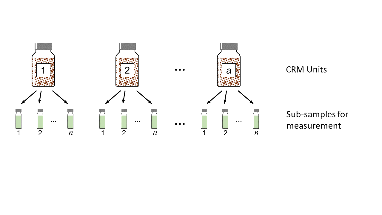 Schematic of a homogeneity experiment for a candidate certified reference material. Large bottles show the CRM units packaged for sale; small vials are subsamples to be measured, usually once each.